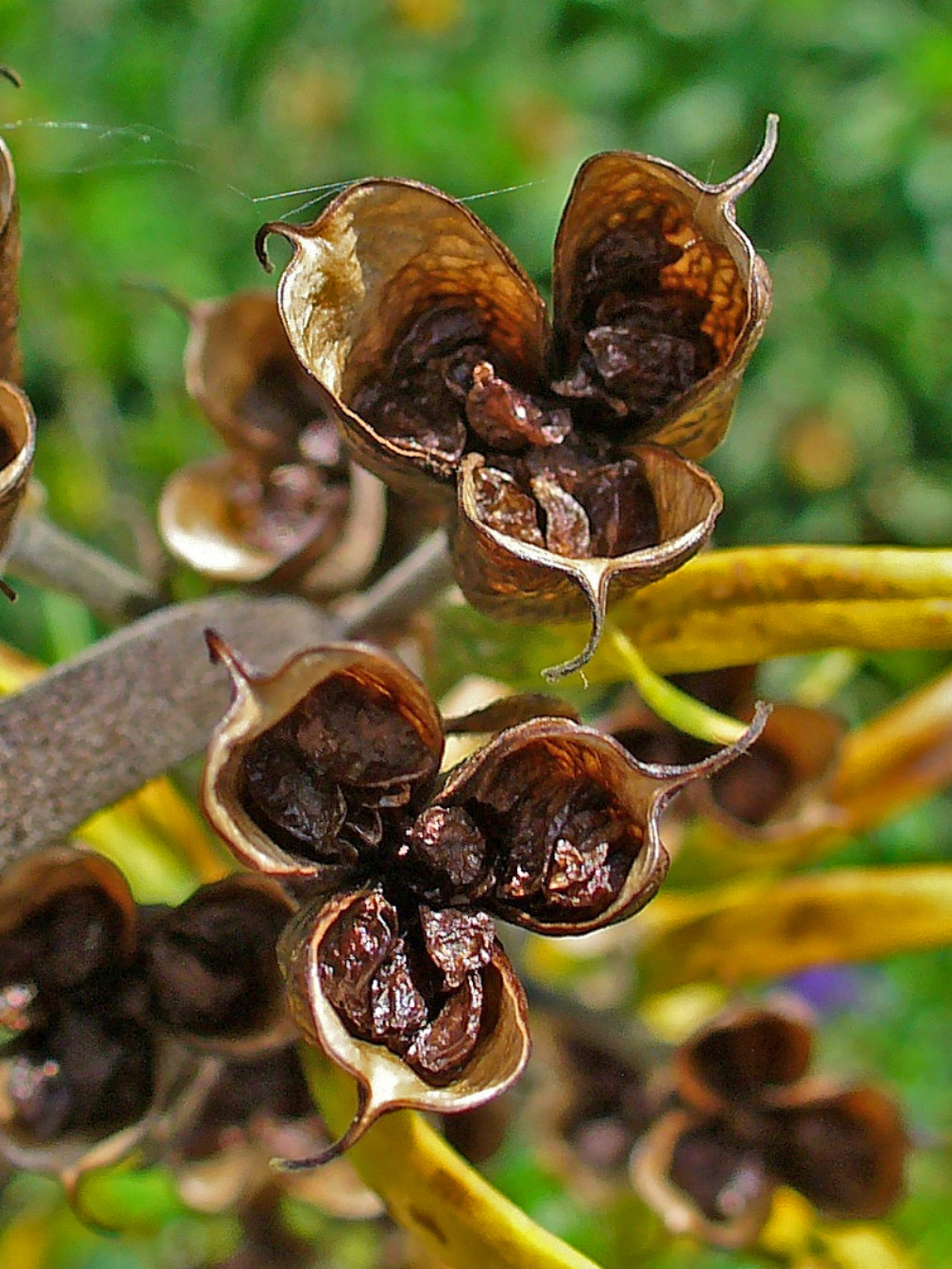 Aconitum napellus, Ranunculaceae, Monkshood, Wolf's Bane, Monk's Blood, Monk's Hood, Fruits with seeds; Garden near Karlsruhe, Germany, not geocoded for private reasons.